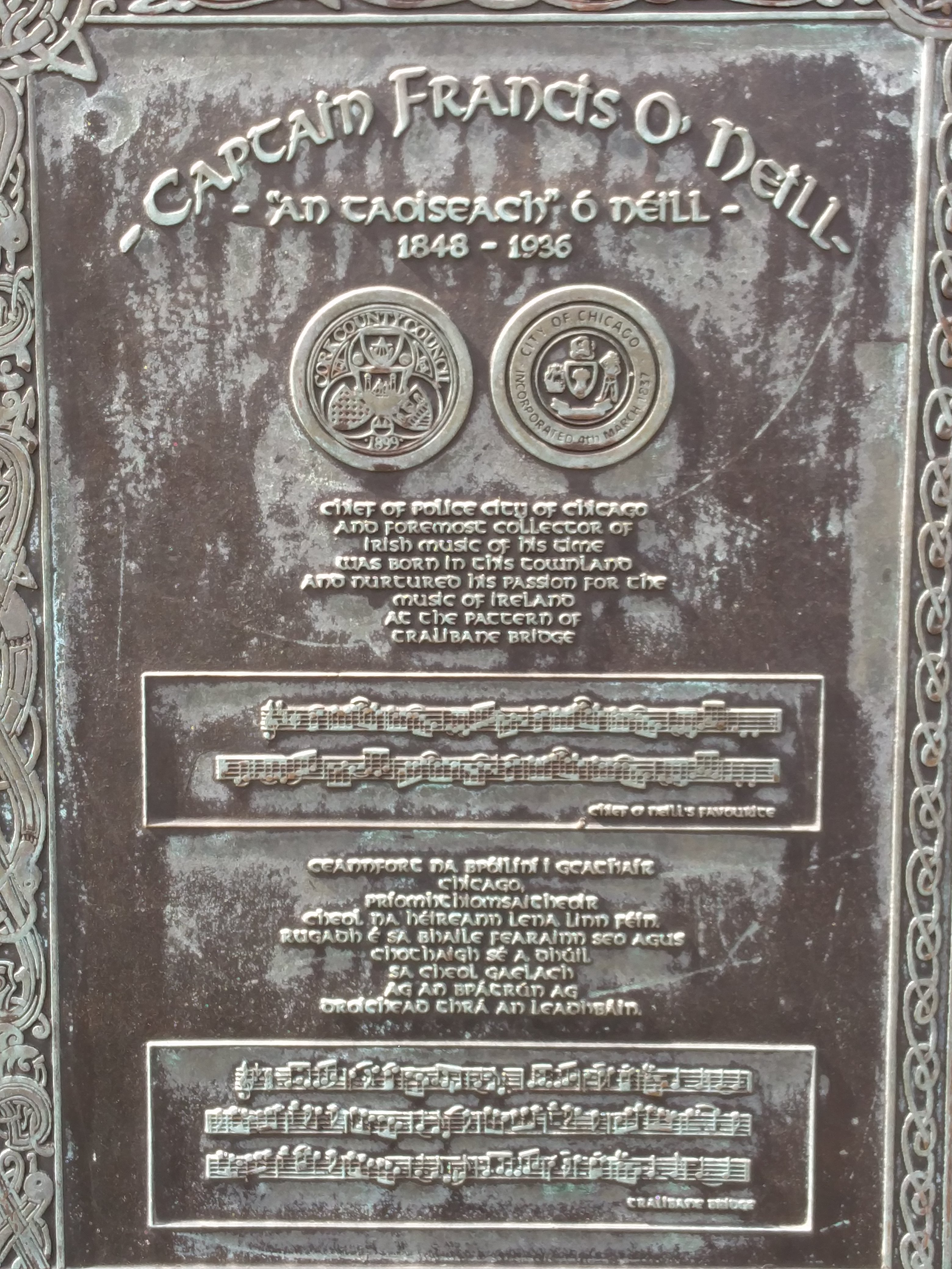 Plaque commemorating the life of Francis O'Neill. Located in Tralibane, Co. Cork, Ireland